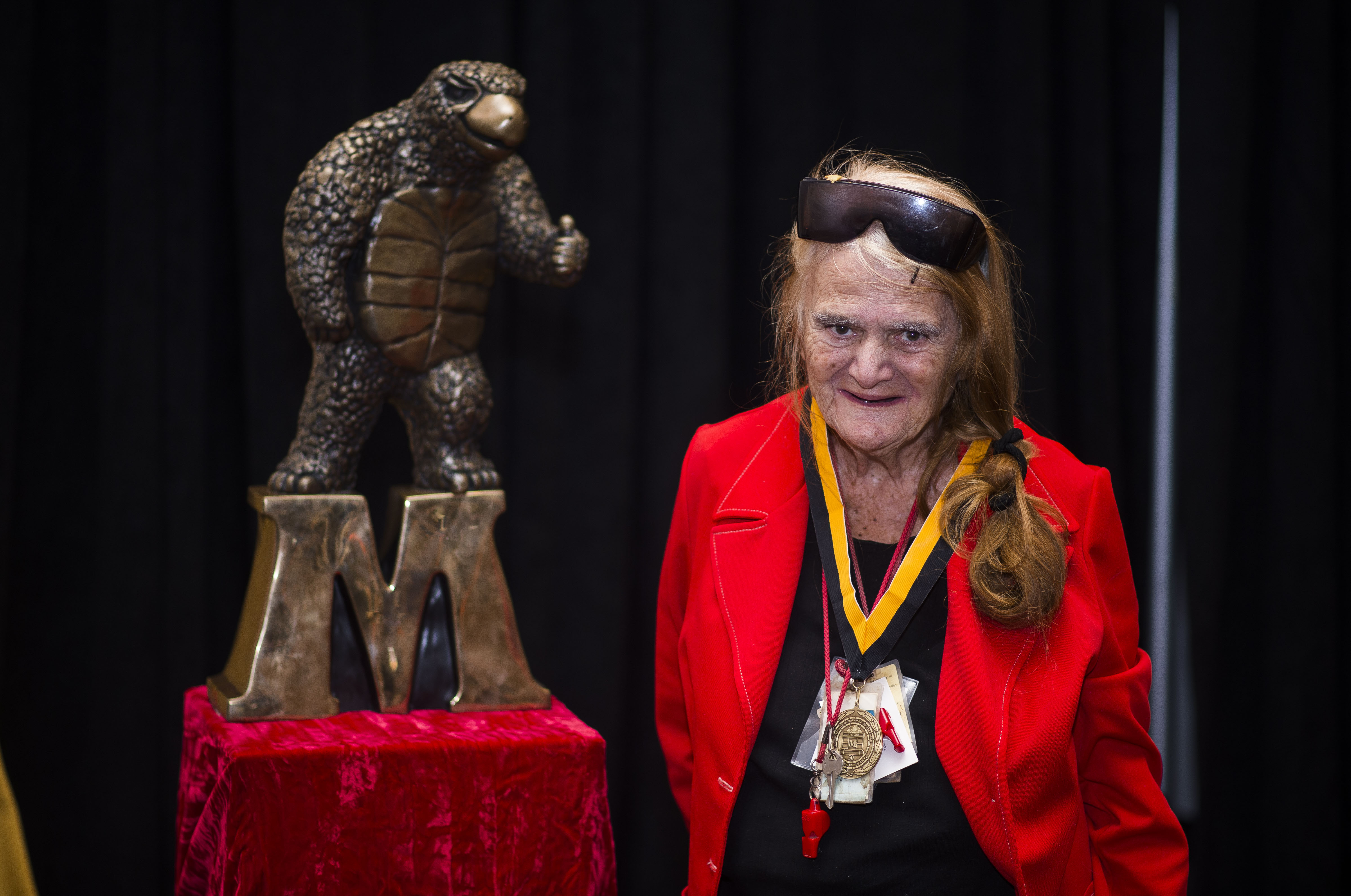 Dr. Dagmar Henney receives an Emeritus Alumni Society award at the 50th reunion on May 18, 2016, prior to Spring Commencement.